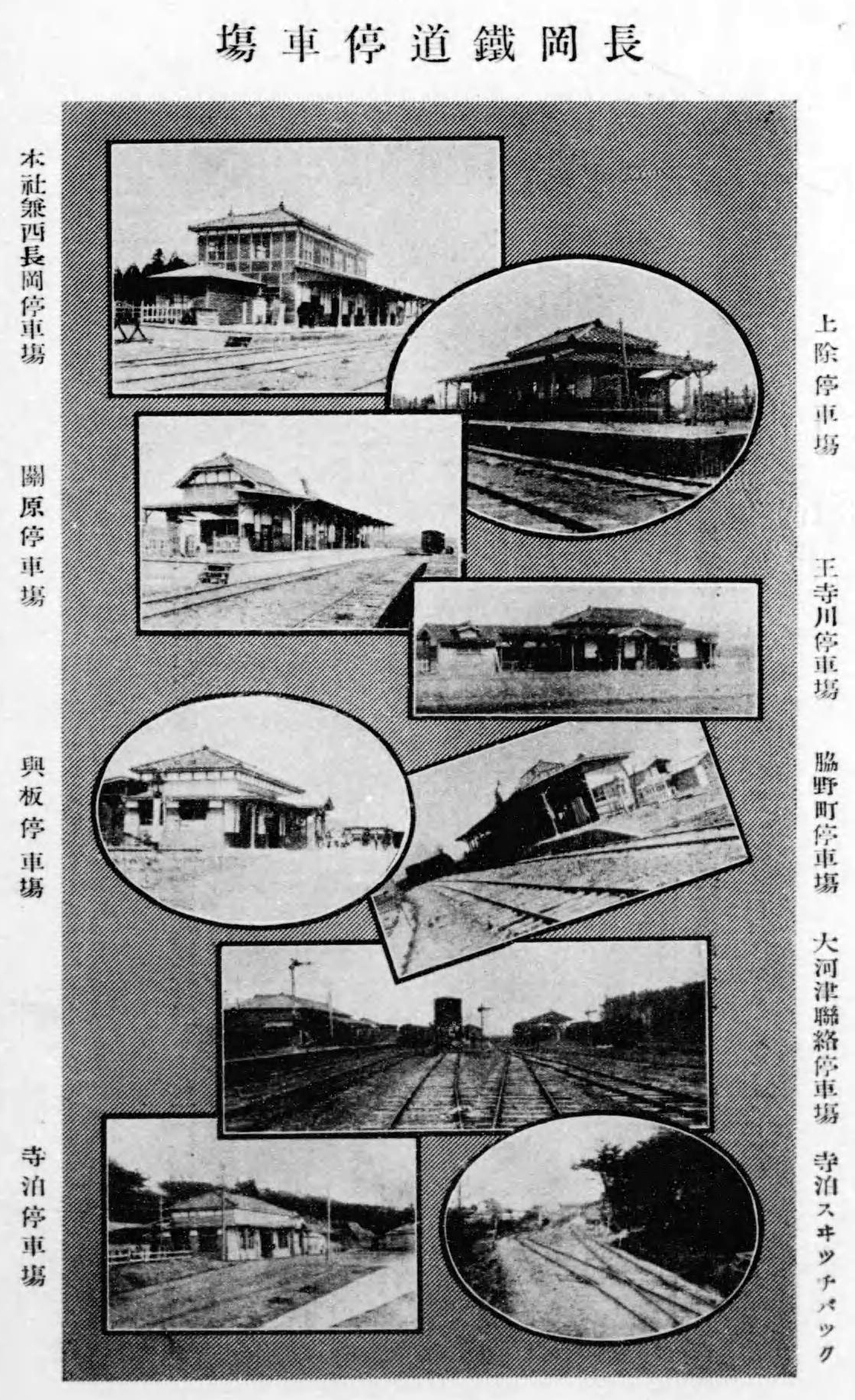 Stations of Nagaoka-Railway in Taisyō era